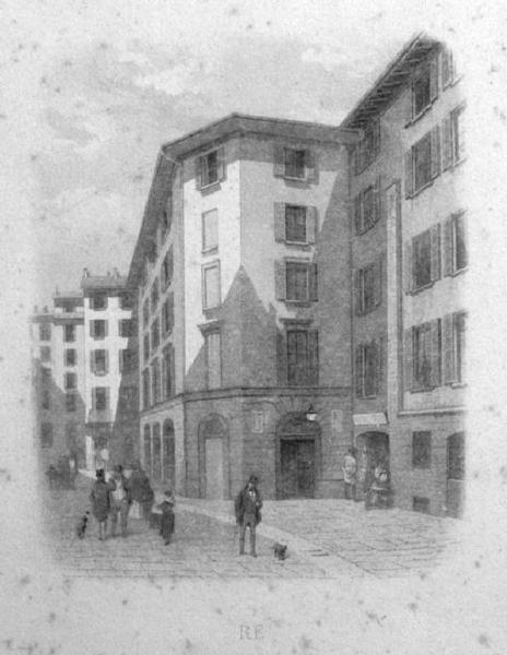 Exterior of the Teatro Re in Milan, one of a folio of 10 images of Milanese theatres by Luigi Cherbuin